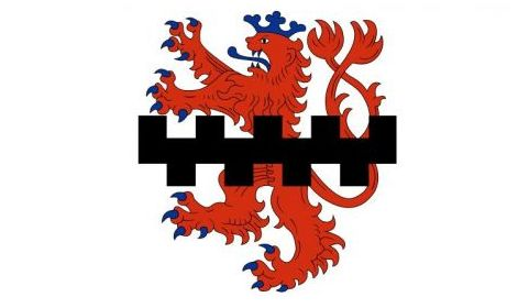 Flag of the city of Leverkusen